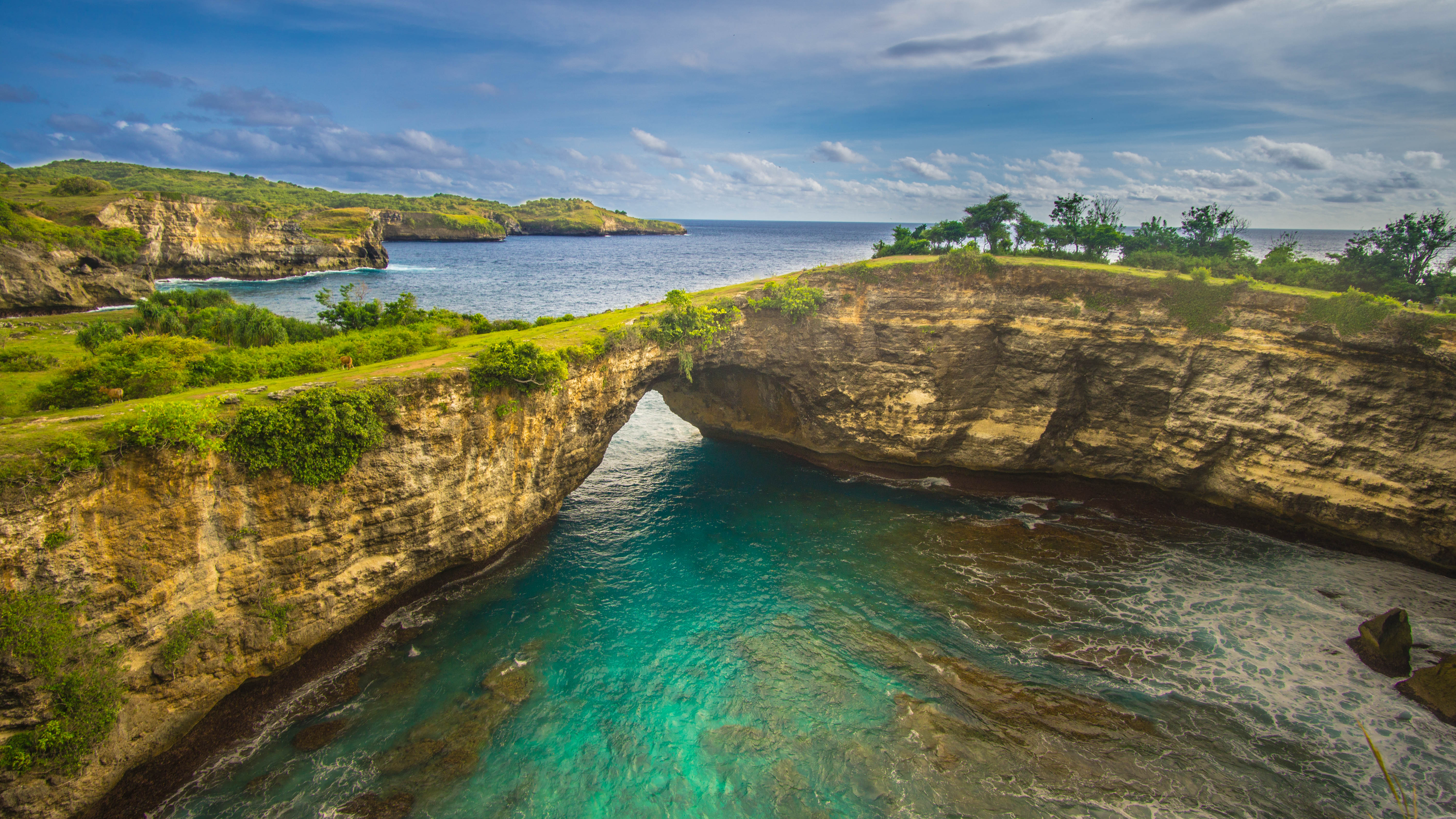 A photo taken during my travels in Indonesia, the country with the most beautiful nature I have seen.